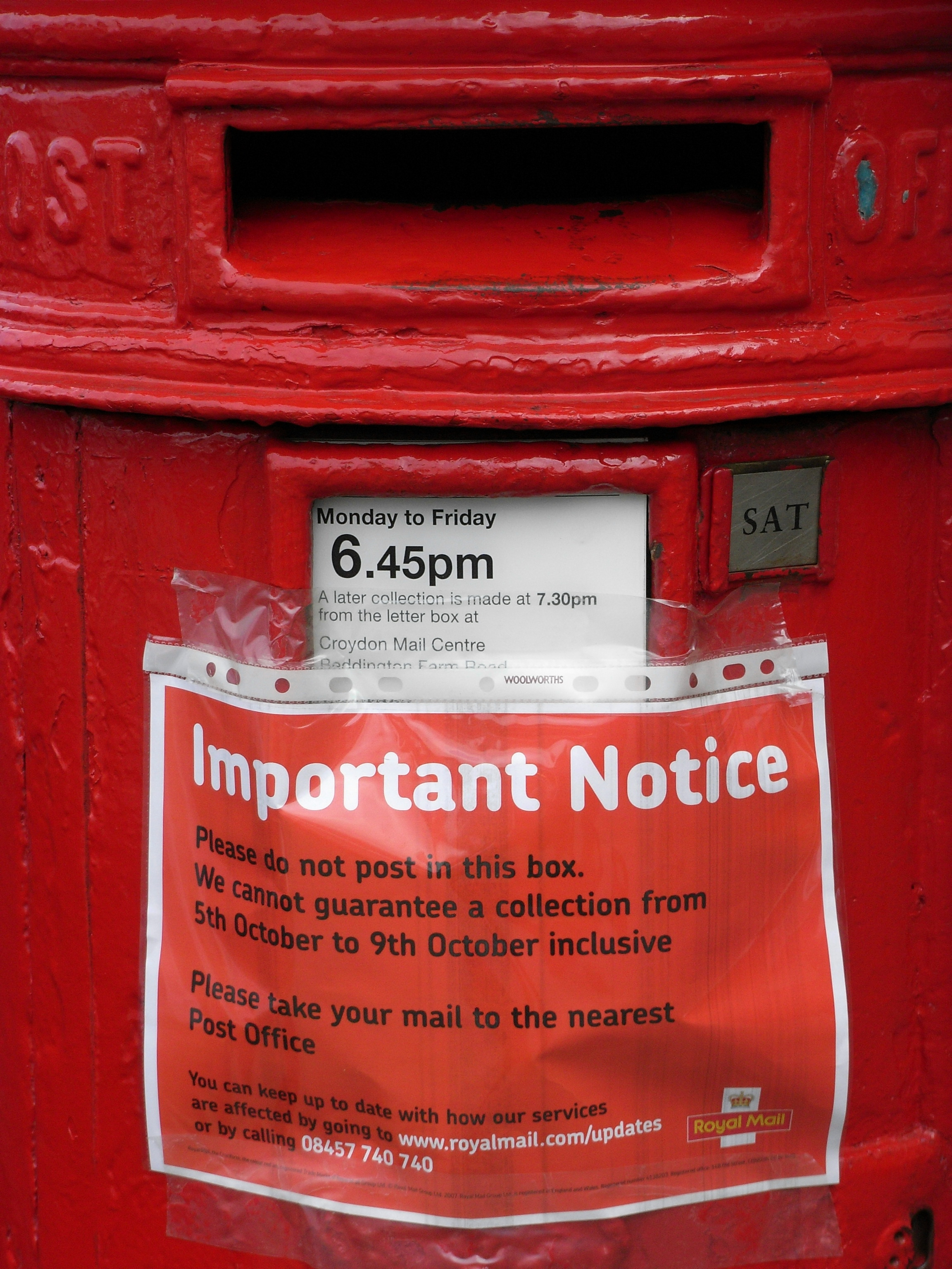 Detail of a pillar box in Stonecot Hill, Sutton, Surrey during a Royal Mail strike in October 2007